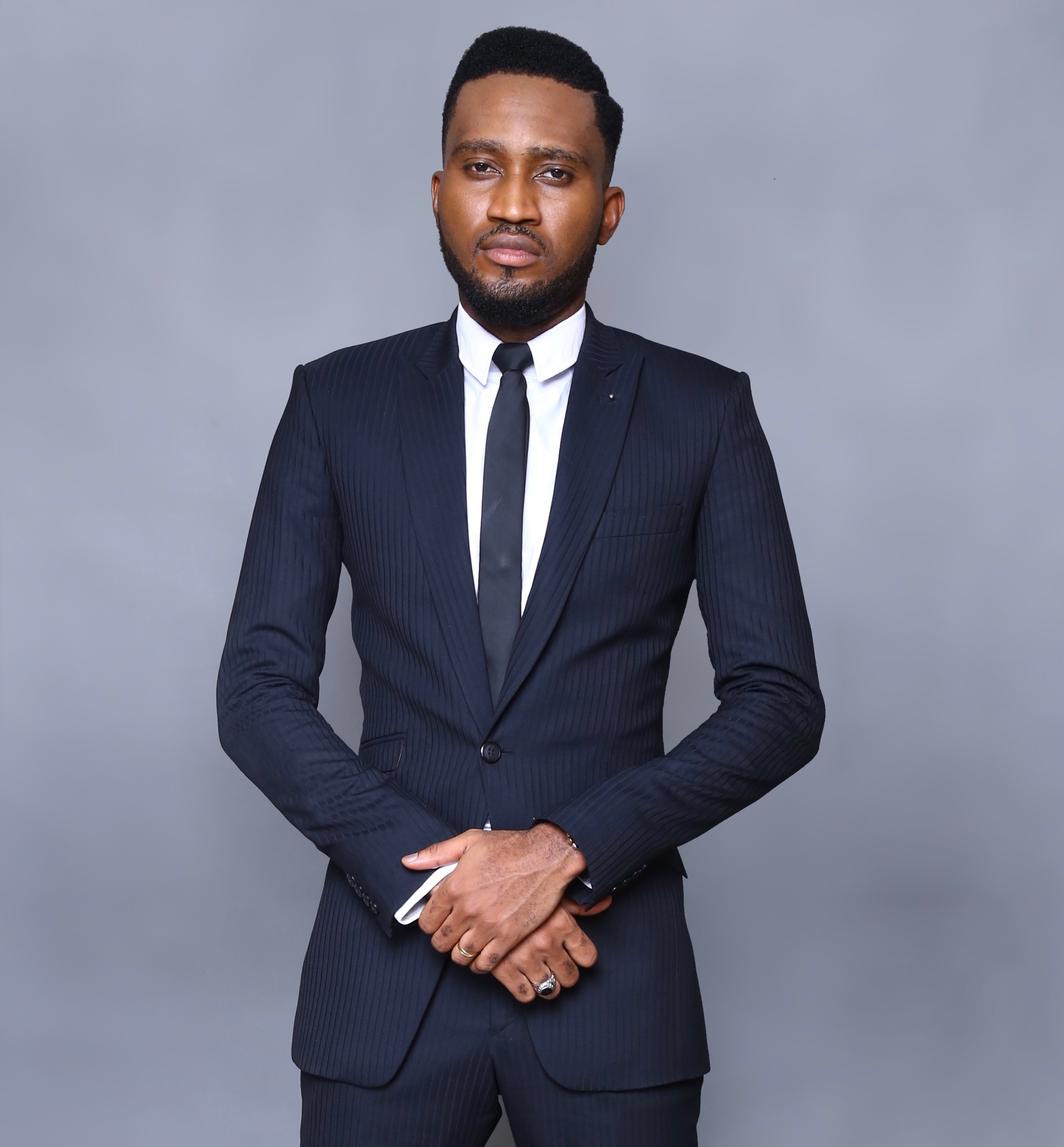 Ohimai Godwin Amaize seen in a suit designed by wife's fashion label Tesslo Concepts